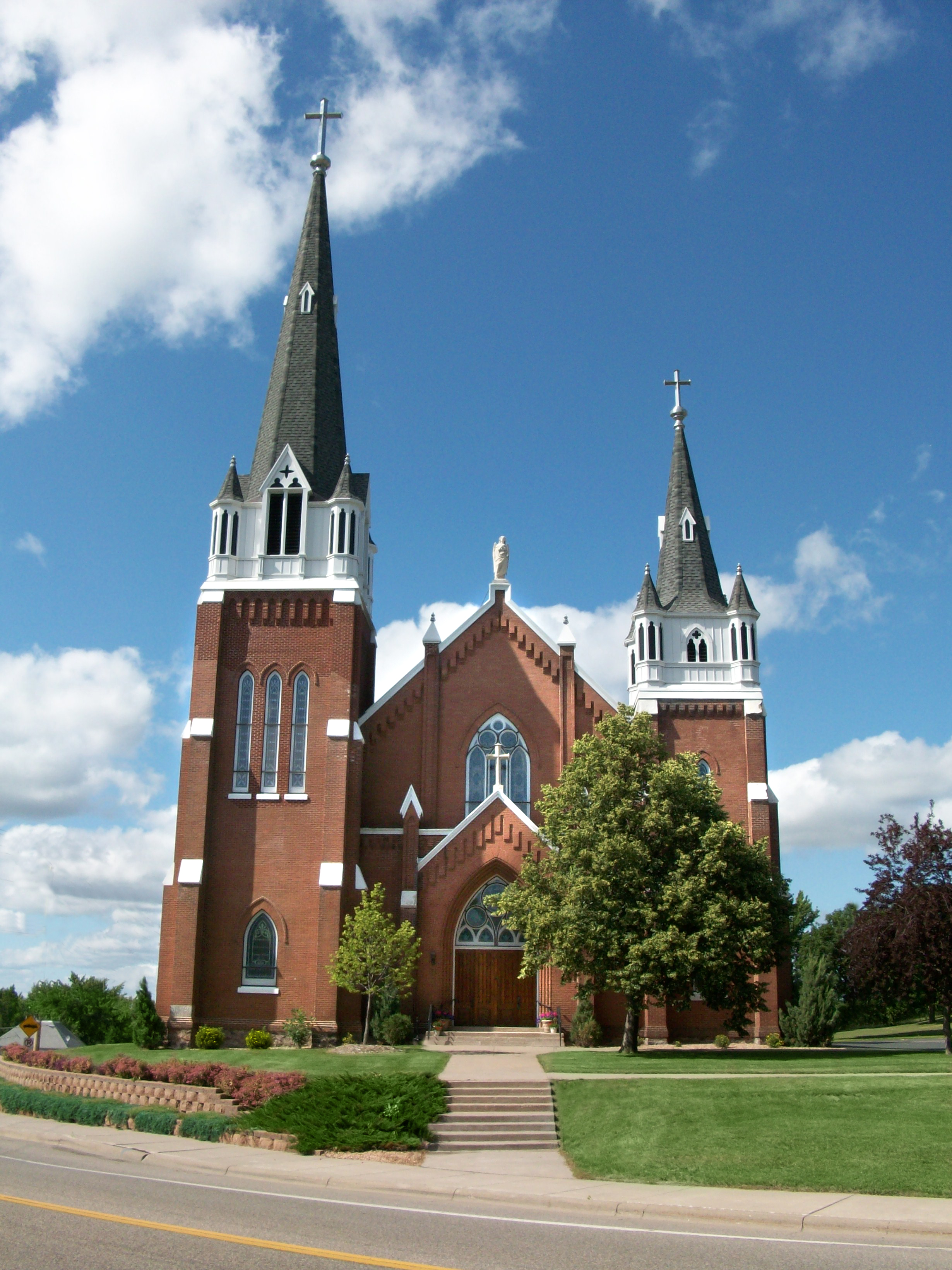 St. John The Baptist Catholic Church, Dayton, Minnesota